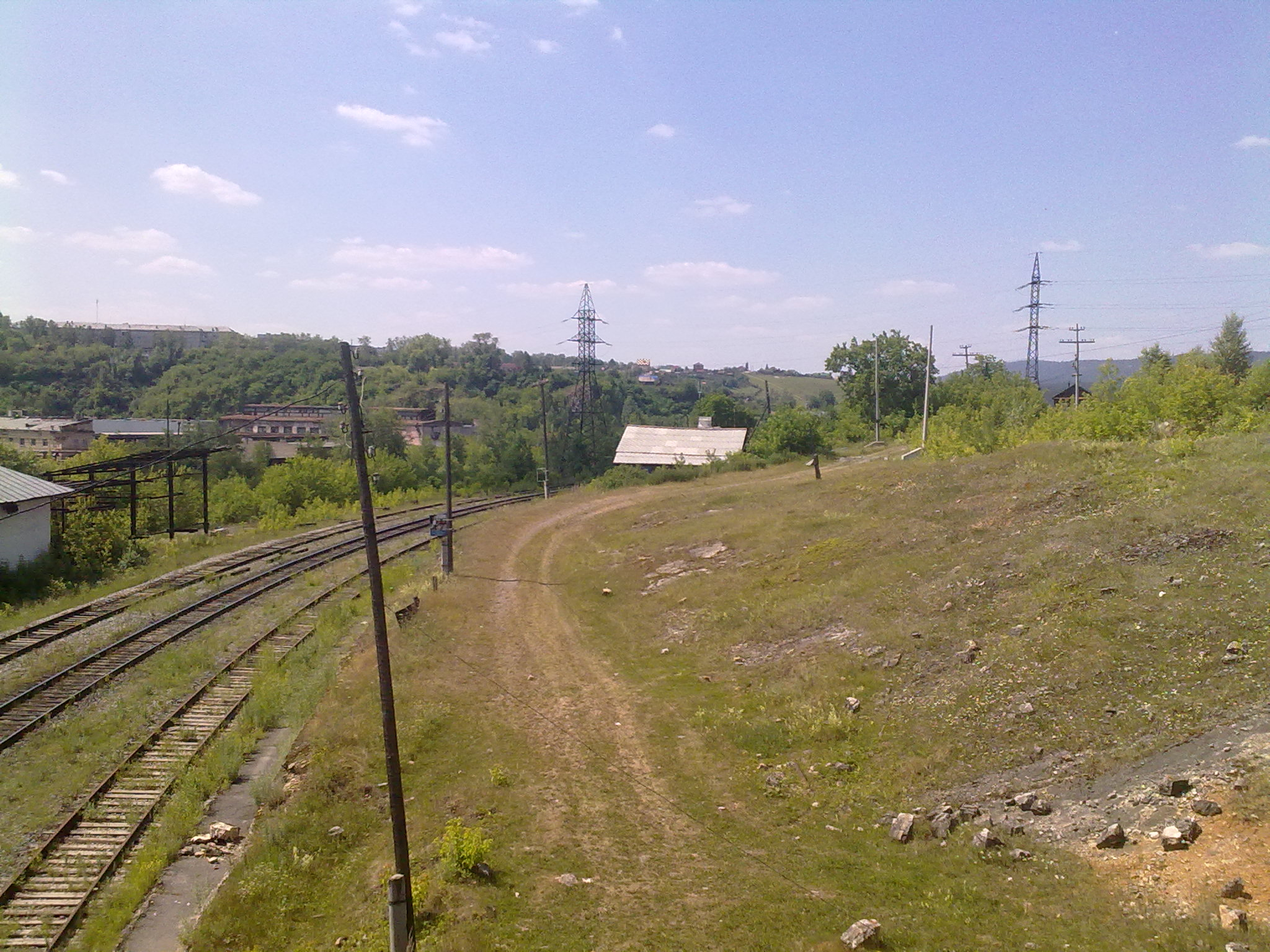 Station Juruzan building in the center. Railway tracks - the line Juruzan Katav-Ivanovsk